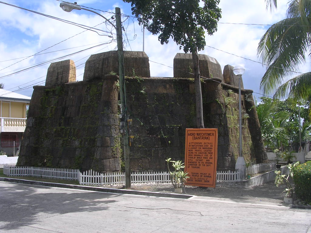 Spanish era watchtowers in Guimbal, Iloilo